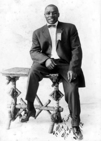 Portrait of Sam Langford, 'The Boston Tar Baby', African Canadian boxer and Australian heavyweight champion, 1912